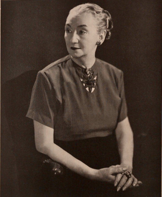 Photograph of Madge Tennent taken in Washington, D.C., in 1948. Photographer unknown. Image reproduced in Tennent's "Autobiography of an Unarrived Artist" (New York: Columbia University Press, 1949).